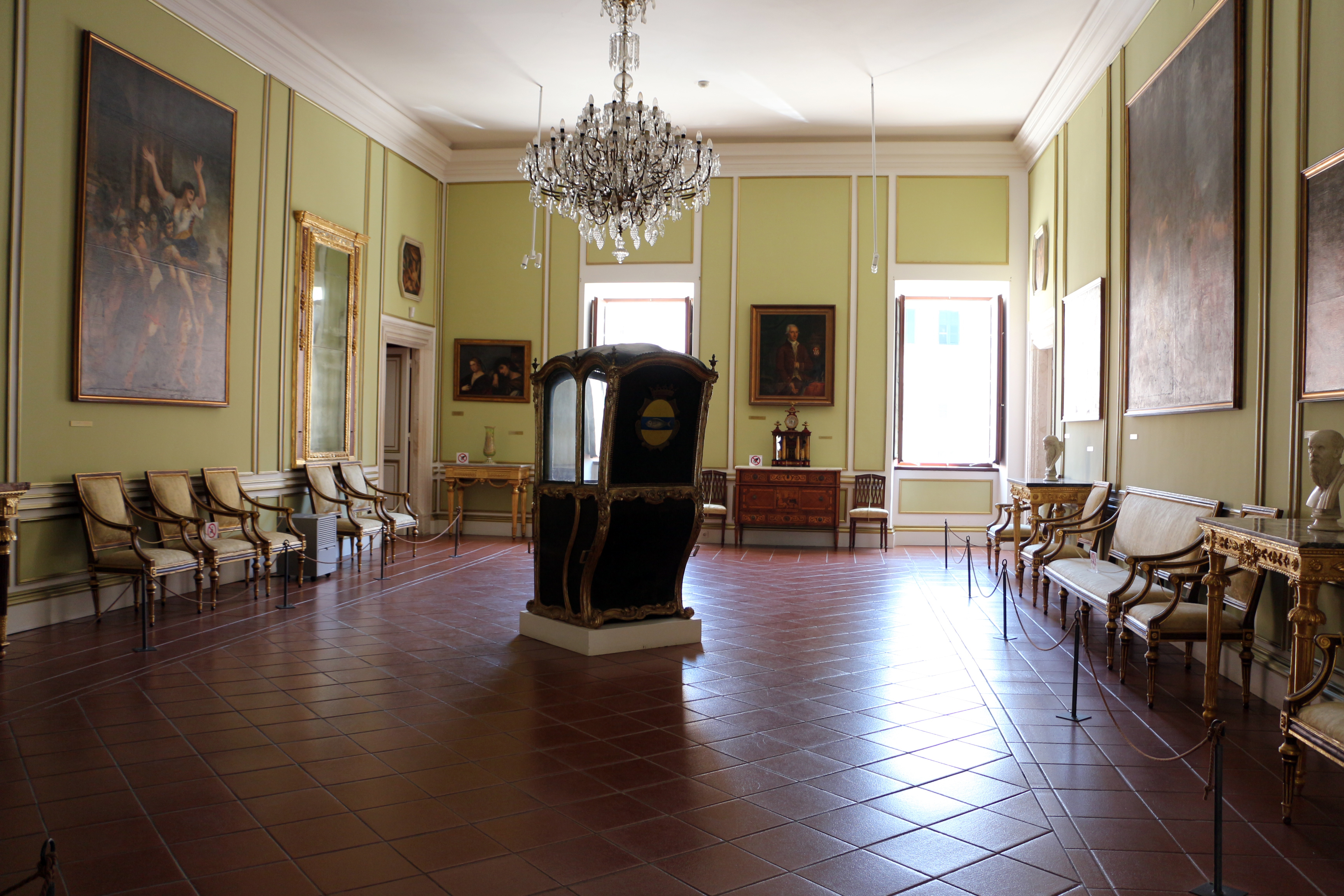 Rector's palace